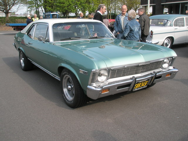 Splendid classic car awaiting the start of the 2009 Havant Mayor's Rally (7)